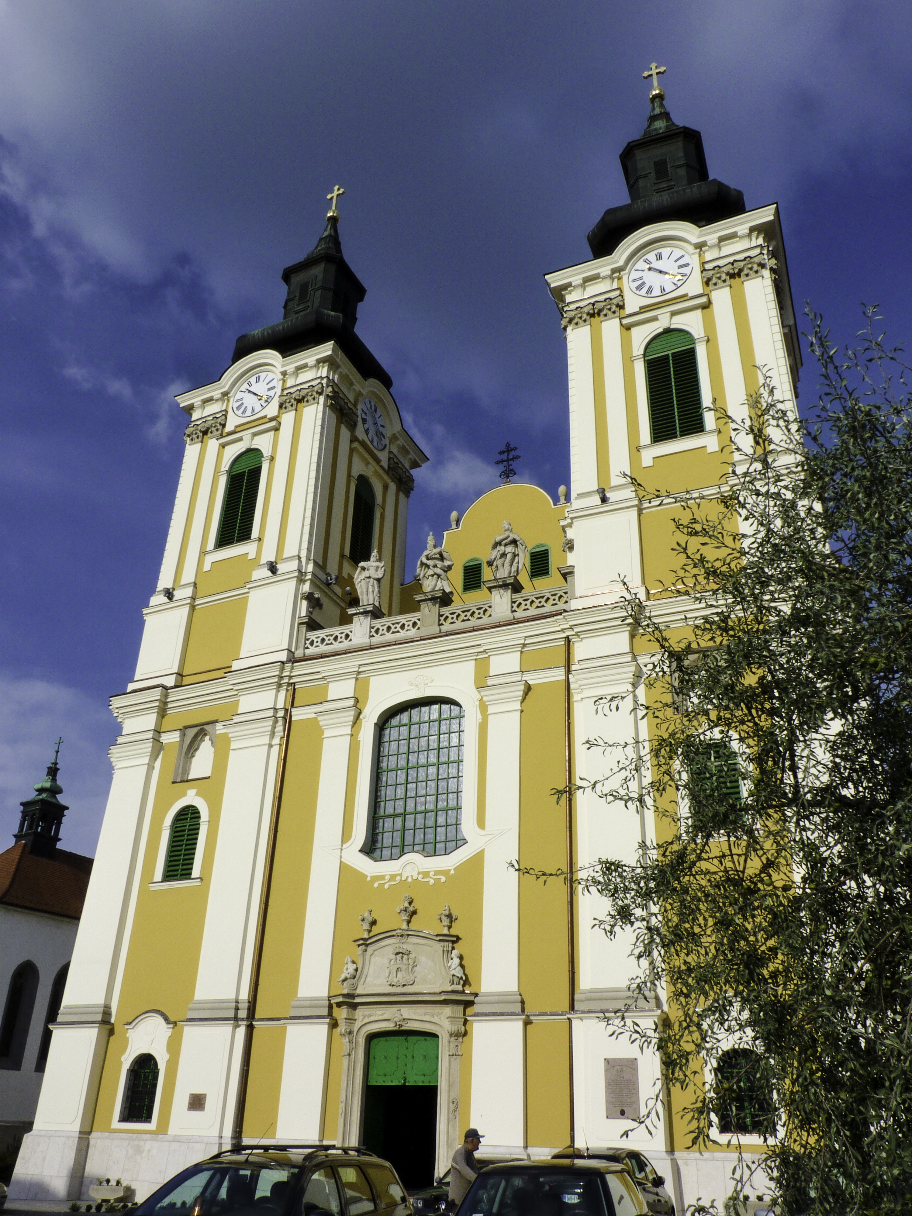 Saint Stephen's Basilica